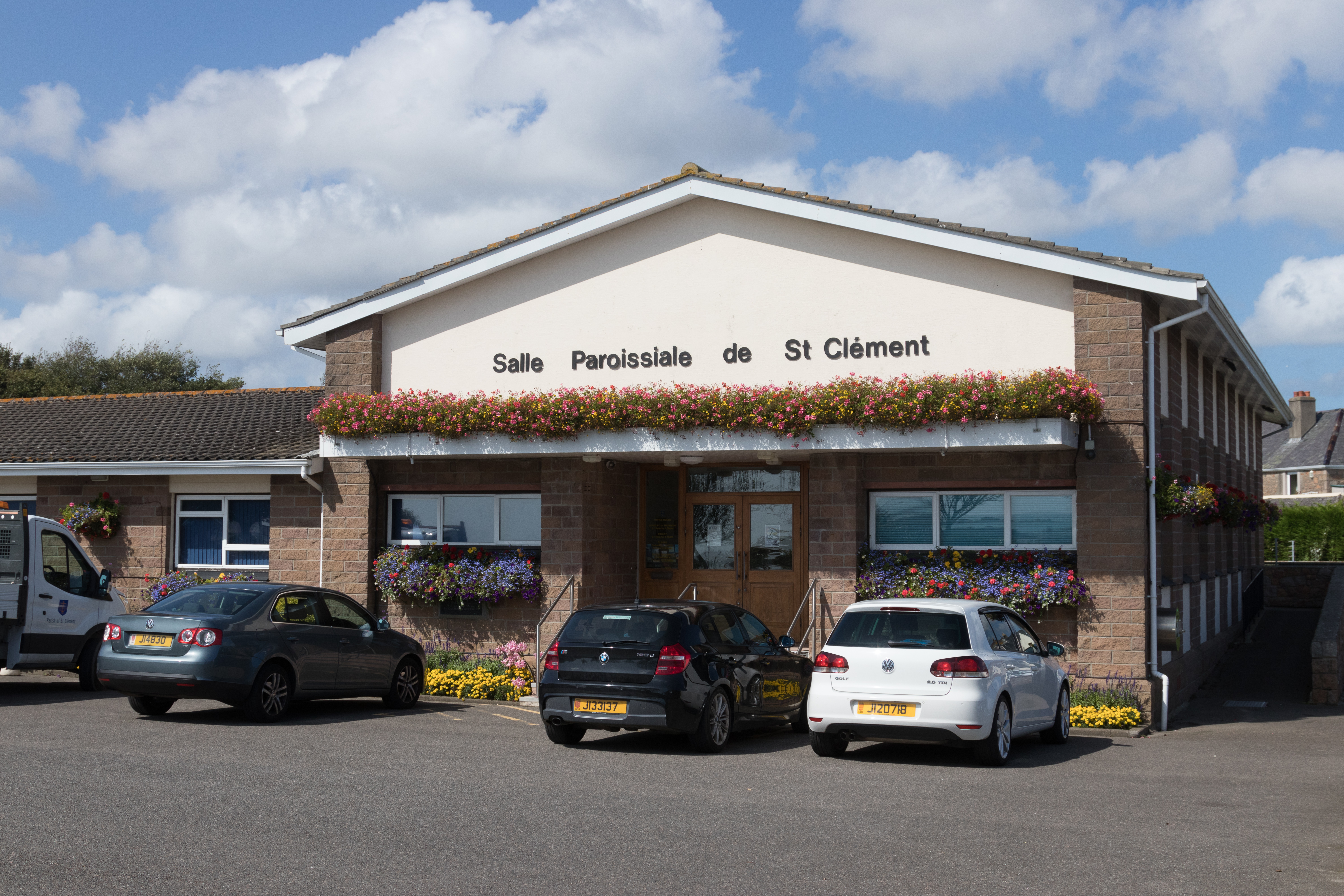 Parish Hall of Saint Clement in Jersey.